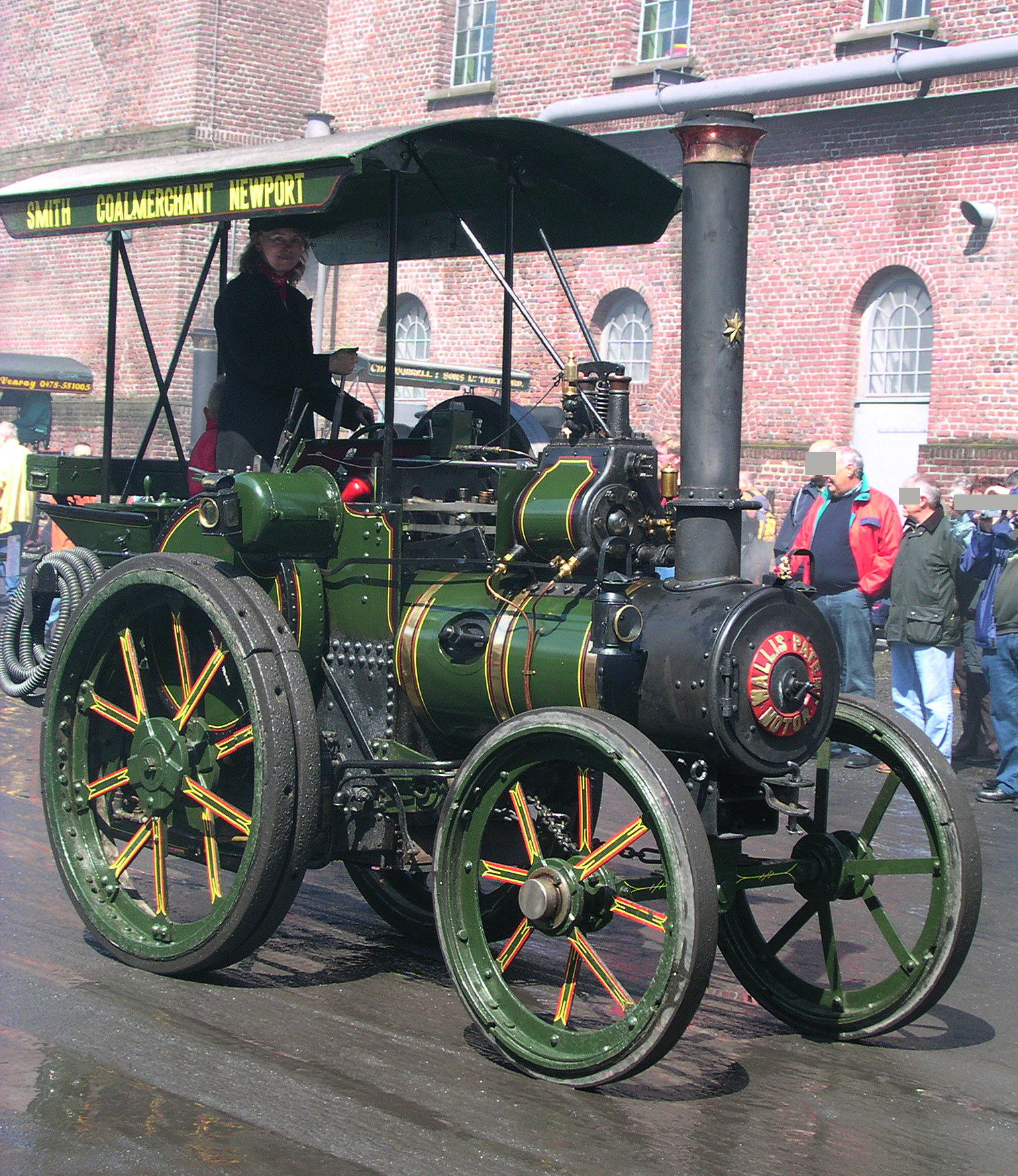 5th steam festival in Bochum, Germany 2007. Wallis & Steevens steam traction machine “Lena”